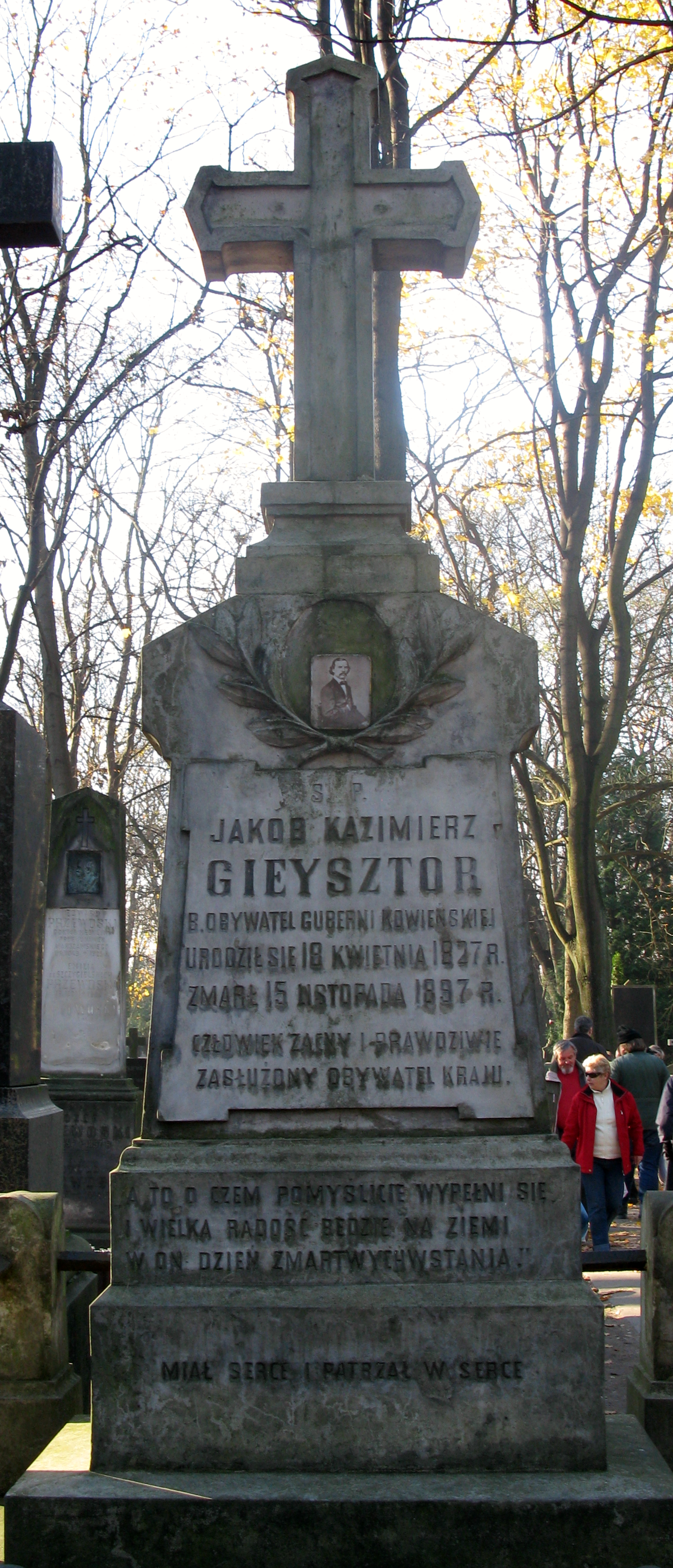 Tomb effigy of Jakun Gieysztor